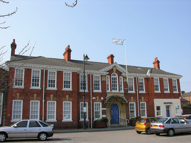 Council Offices, Market Green, Cottingham, East Riding of Yorkshire, England.